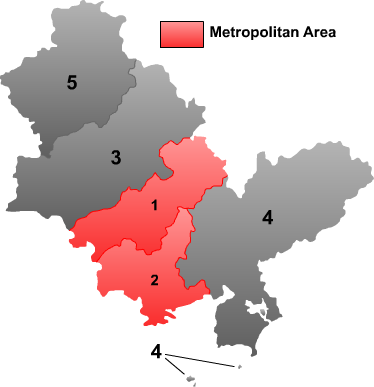 Map of Huizhou in Guangdong province